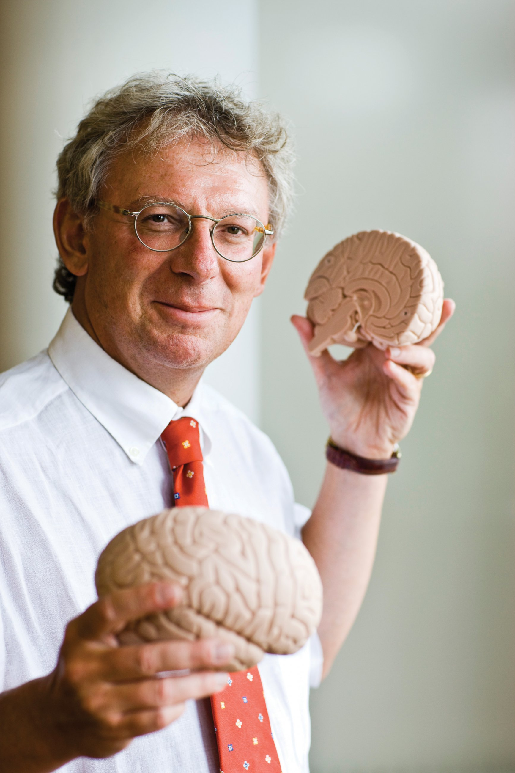 Dutch neurologist Michel Ferrari in 2009